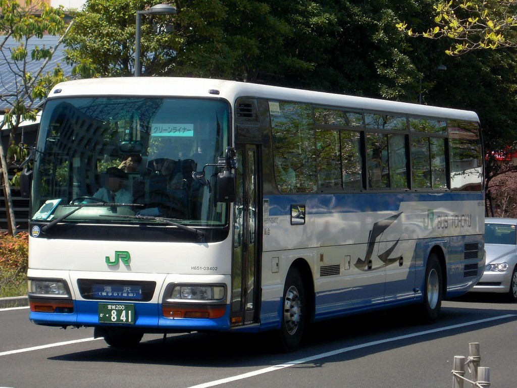 JR bus Tohoku Isuzu GalaHighwaybus "Greenliner"(Sendai-Yokote,Yuzawa)